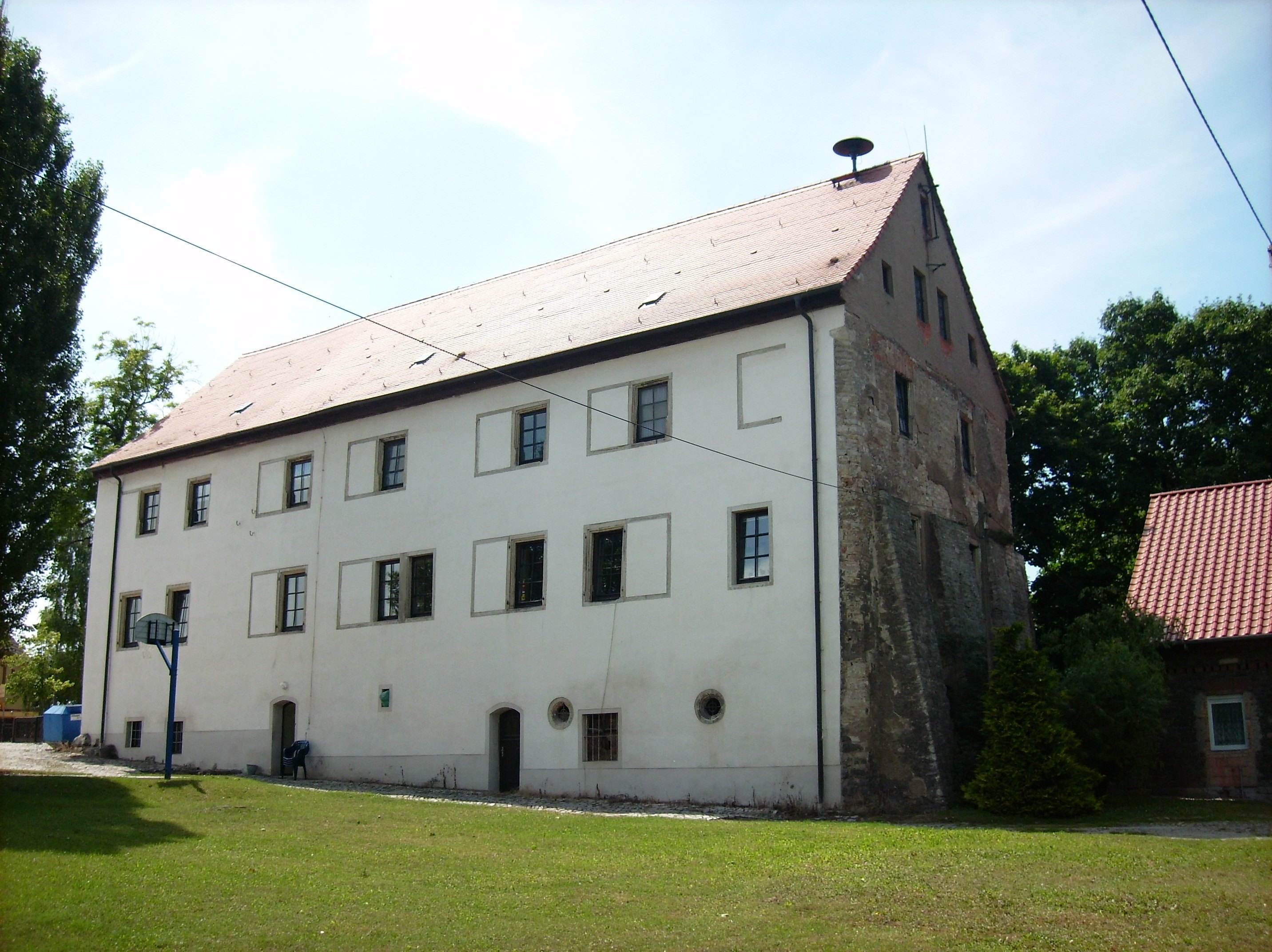 Beesenlaublingen Castle (Könnern, district of Salzlandkreis, Saxony-Anhalt)